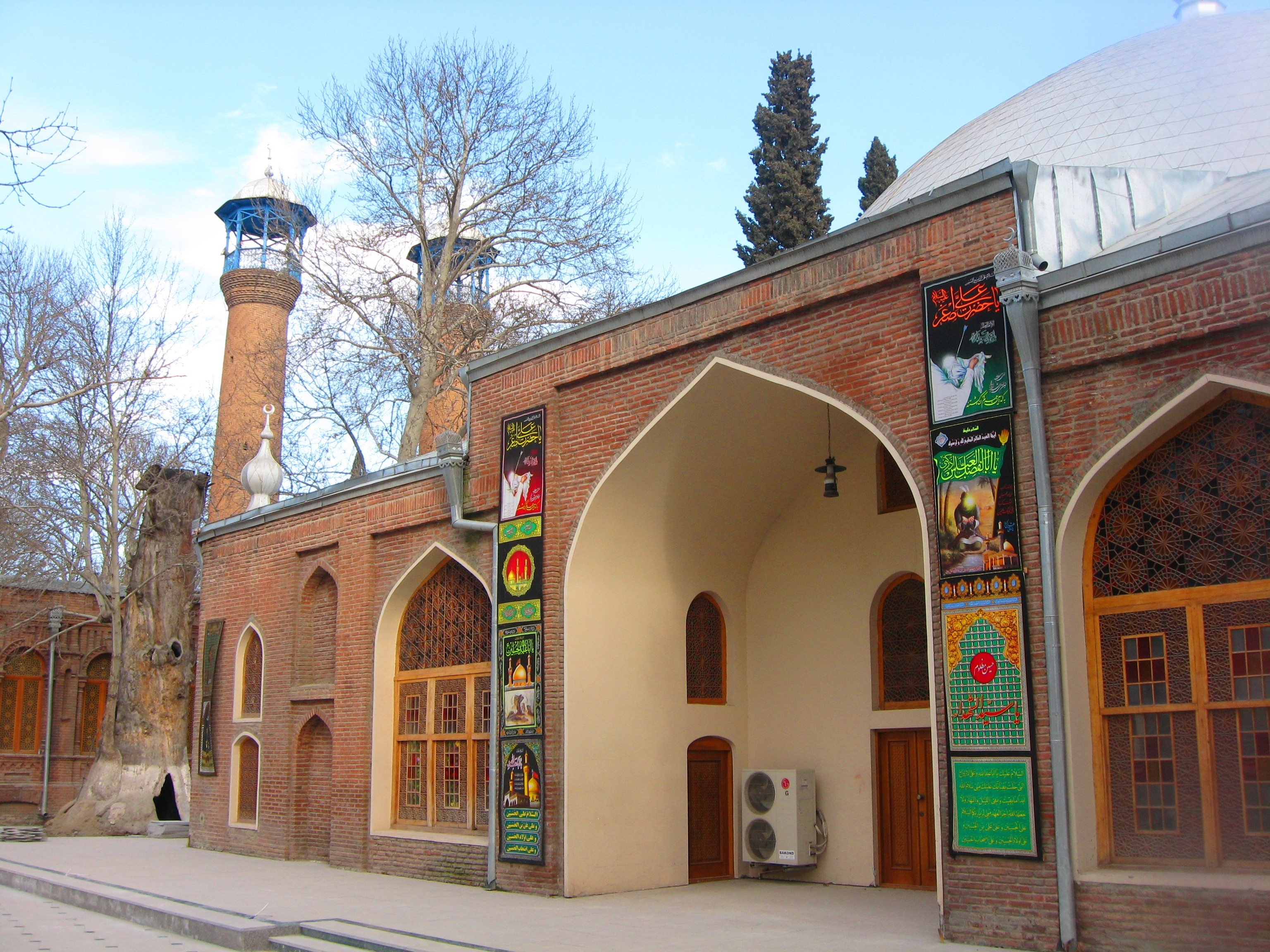 Juma mosque (also called Shah Abbas Mosque) in Ganja, Azerbaijan. Built in 1606.